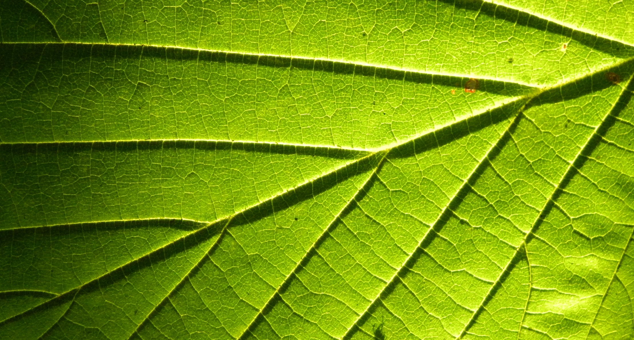 Leaf and sun light (Common Hazel - Corylus avellana)